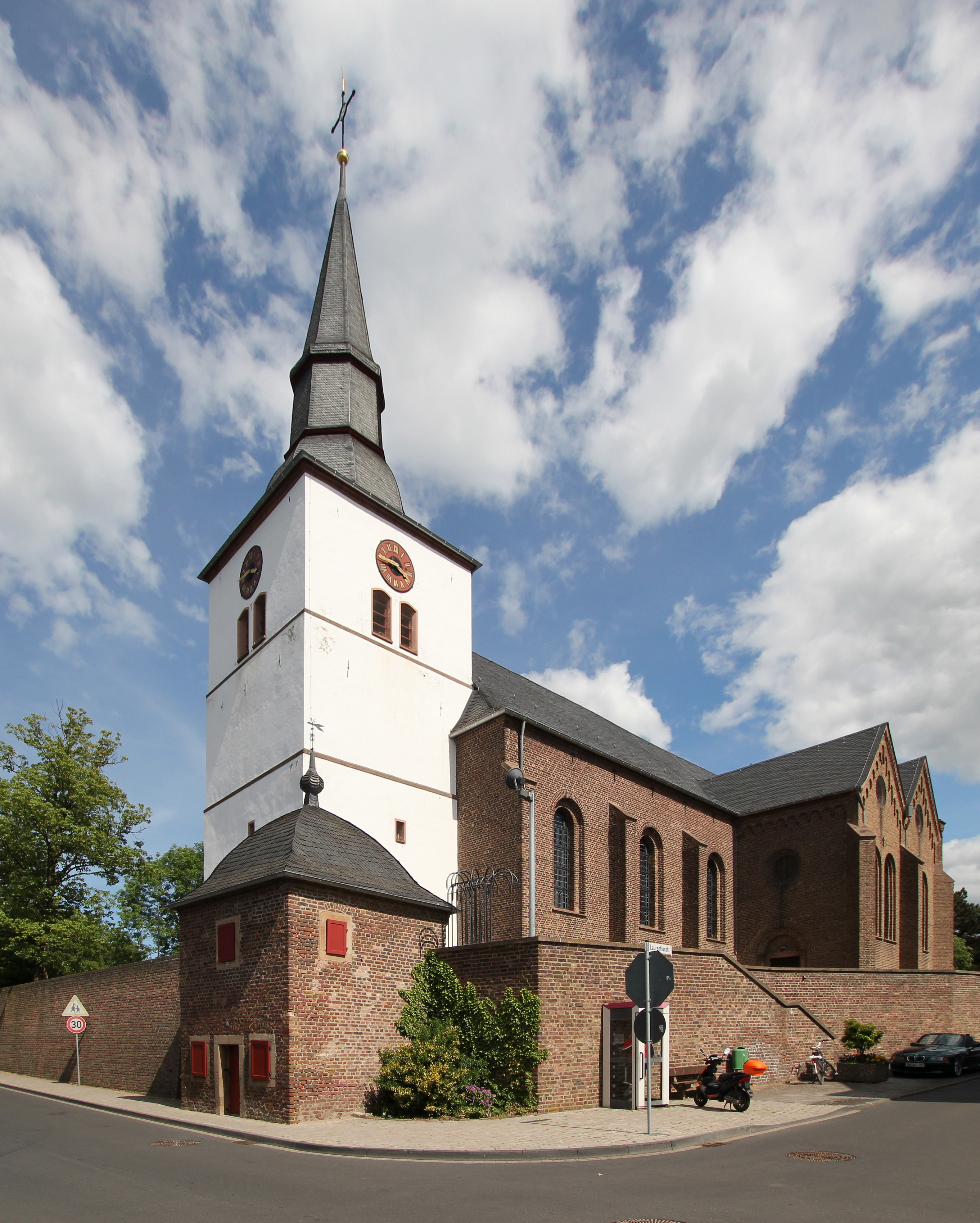 Saint Pantaleon church in Erp, Erftstadt, Germany This is a photograph of an architectural monument.